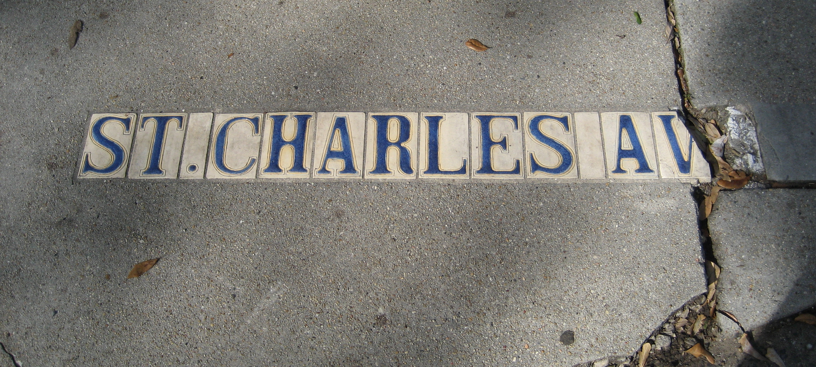 Surviving 19th century tile street name, St. Charles Avenue, New Orleans